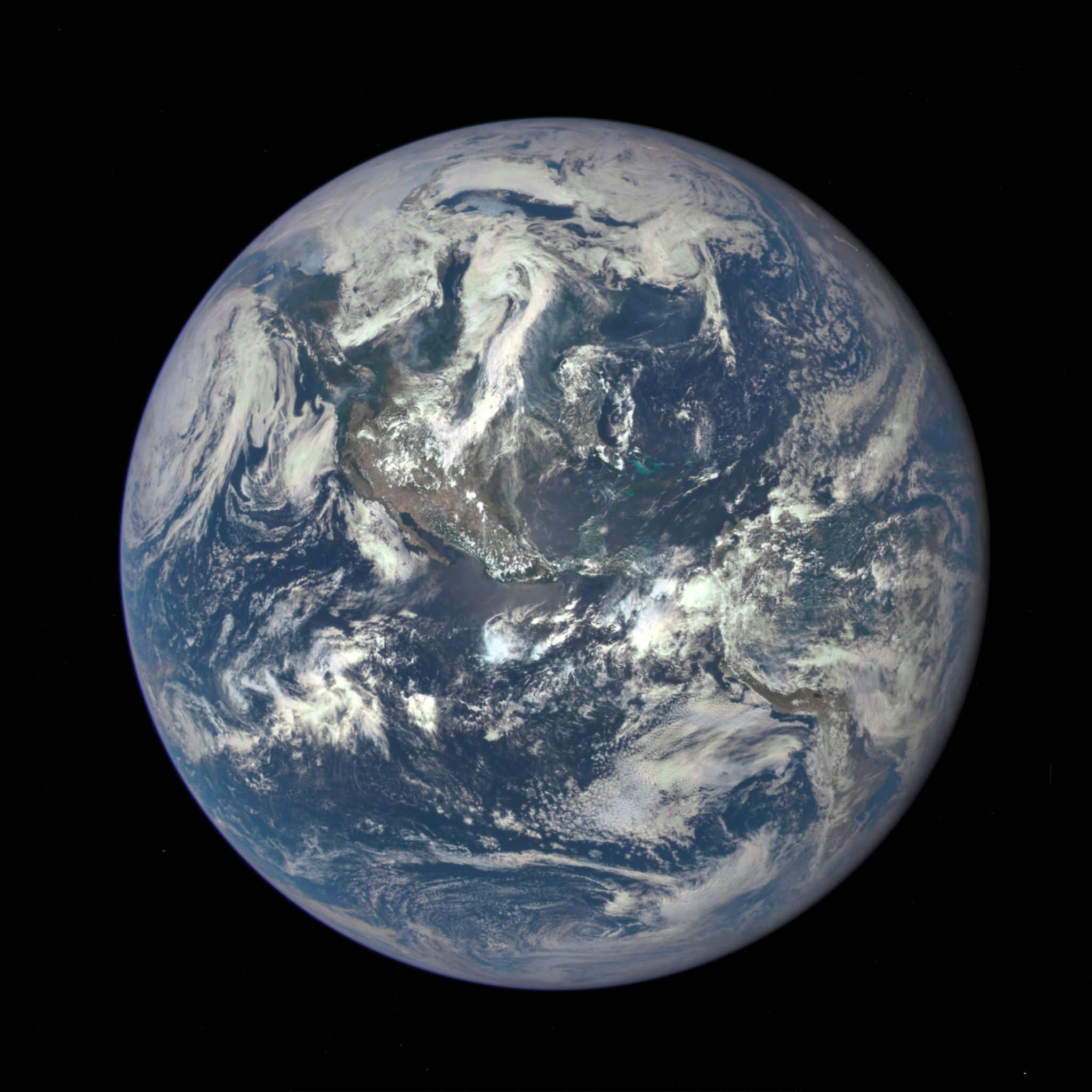 Earth as seen on July 6, 2015 from a distance of one million miles by DSCOVR's (Deep Space Climate Observatory) EPIC scientific camera